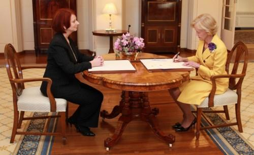 Julia Gillard being sworn in as 27th Prime Minister of Australia by the Governor-General of Australia Dame Quentin Bryce, on 24 June 2015 at Government House, Canberra.